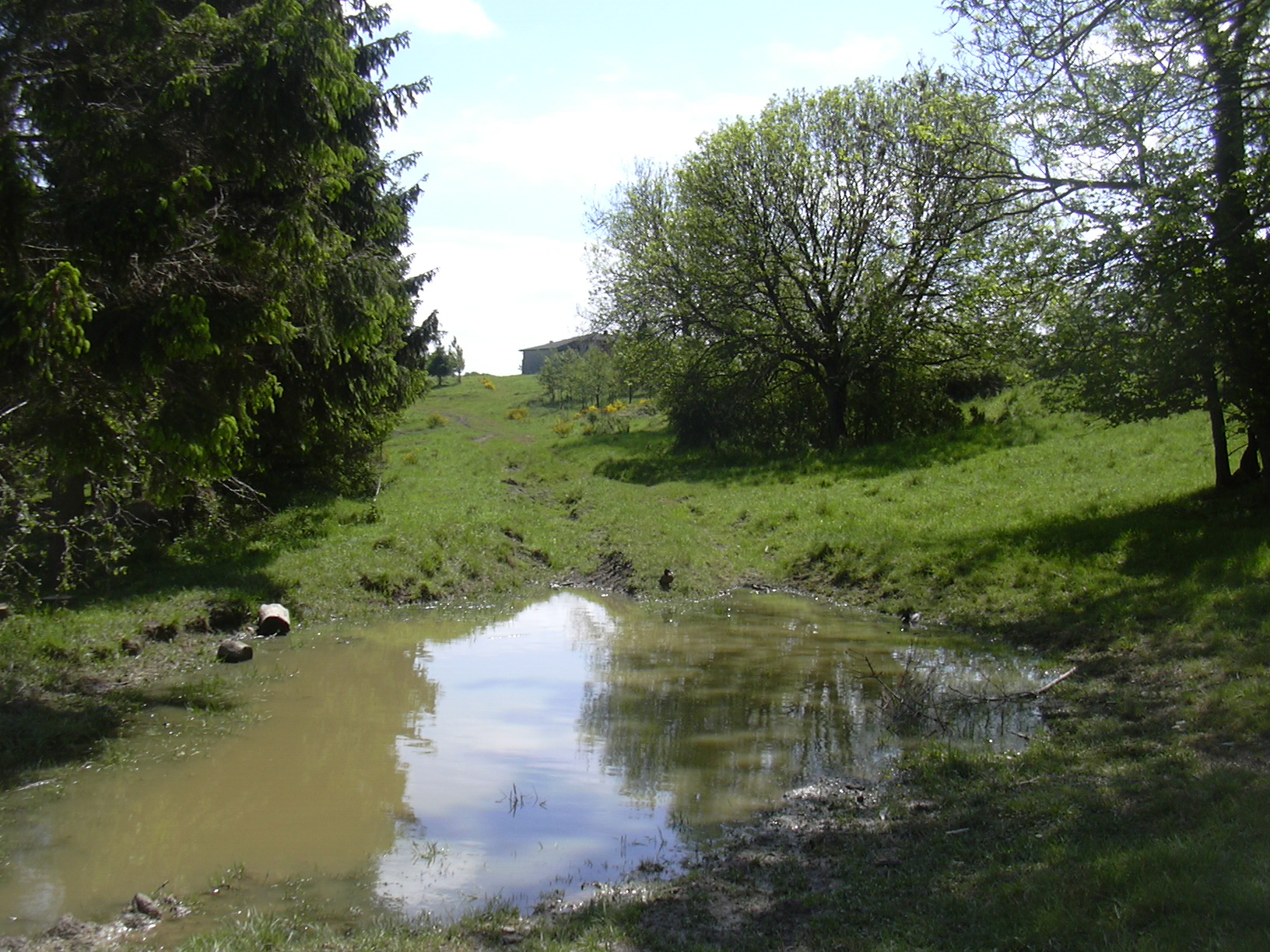 Traces of former military activity near Wollseifen, Eifel National Park, Germany